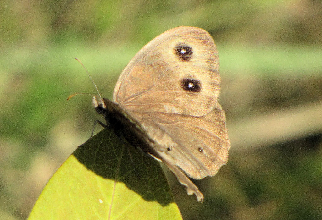 Common Wood Nymph (Cercyonis pegala), Mer Bleue Conservation Area, Ottawa, Ontario